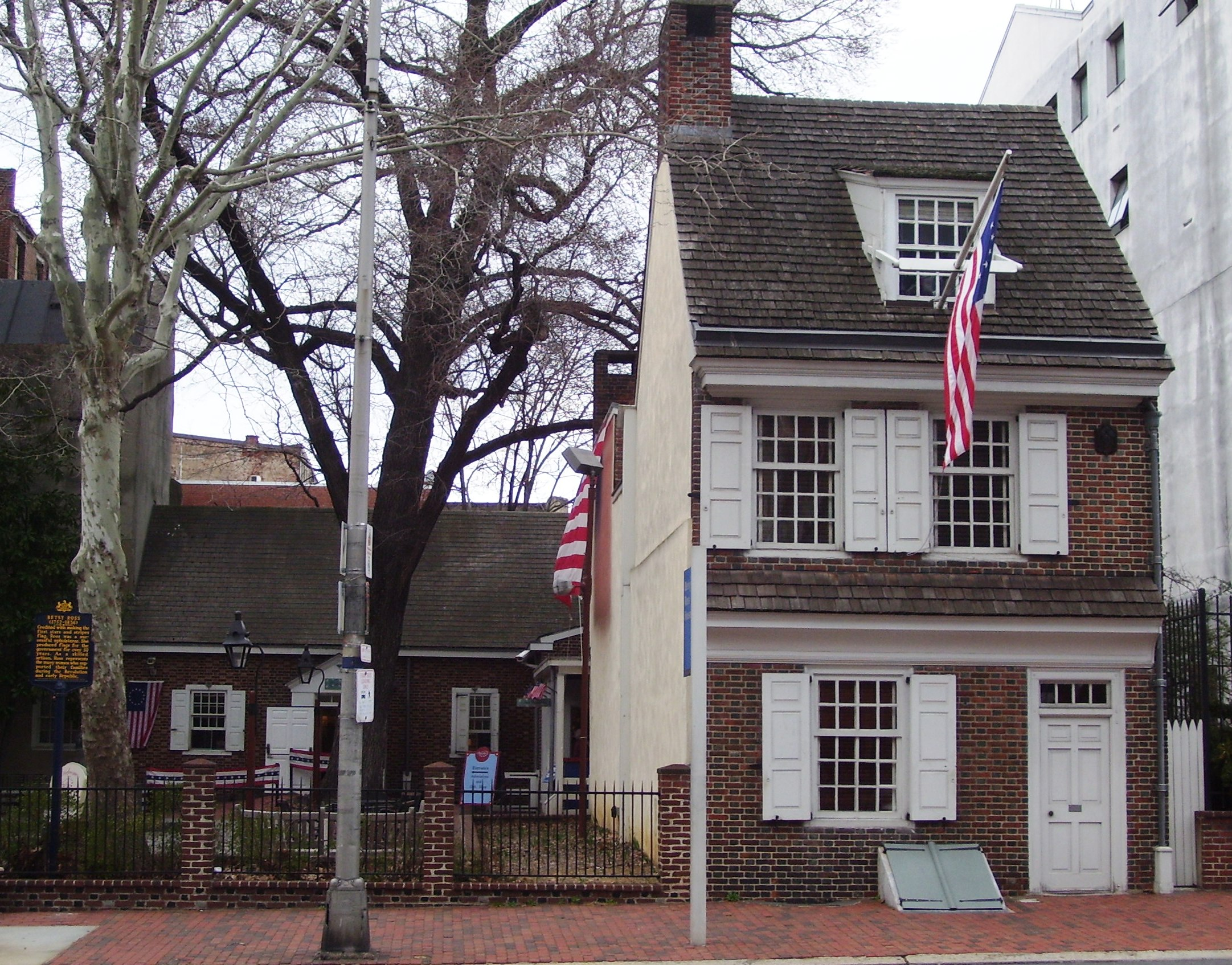 The Betsy Ross House at 278 Arch Street in Philadelphia, Pennsylvania.